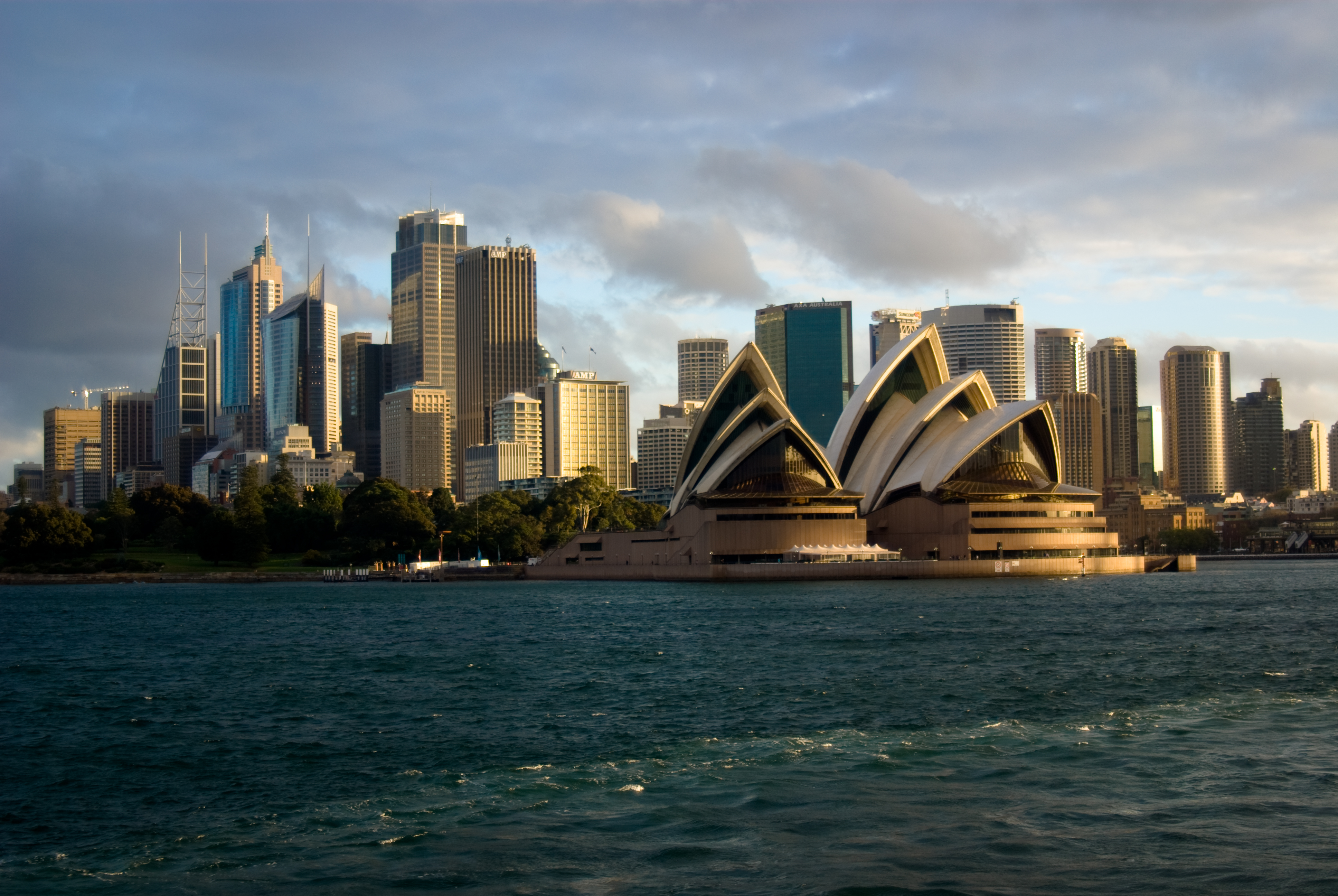 Sydney Opera House with city in background